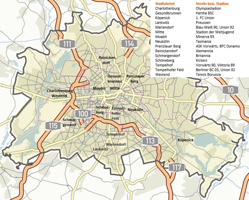 Map of Berlin which show the districts which have (or once had) a more or less important football club respectively one of the most important stadiums.